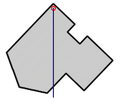 Step 2 to determine the center of gravity in an arbitrary 2D shape.